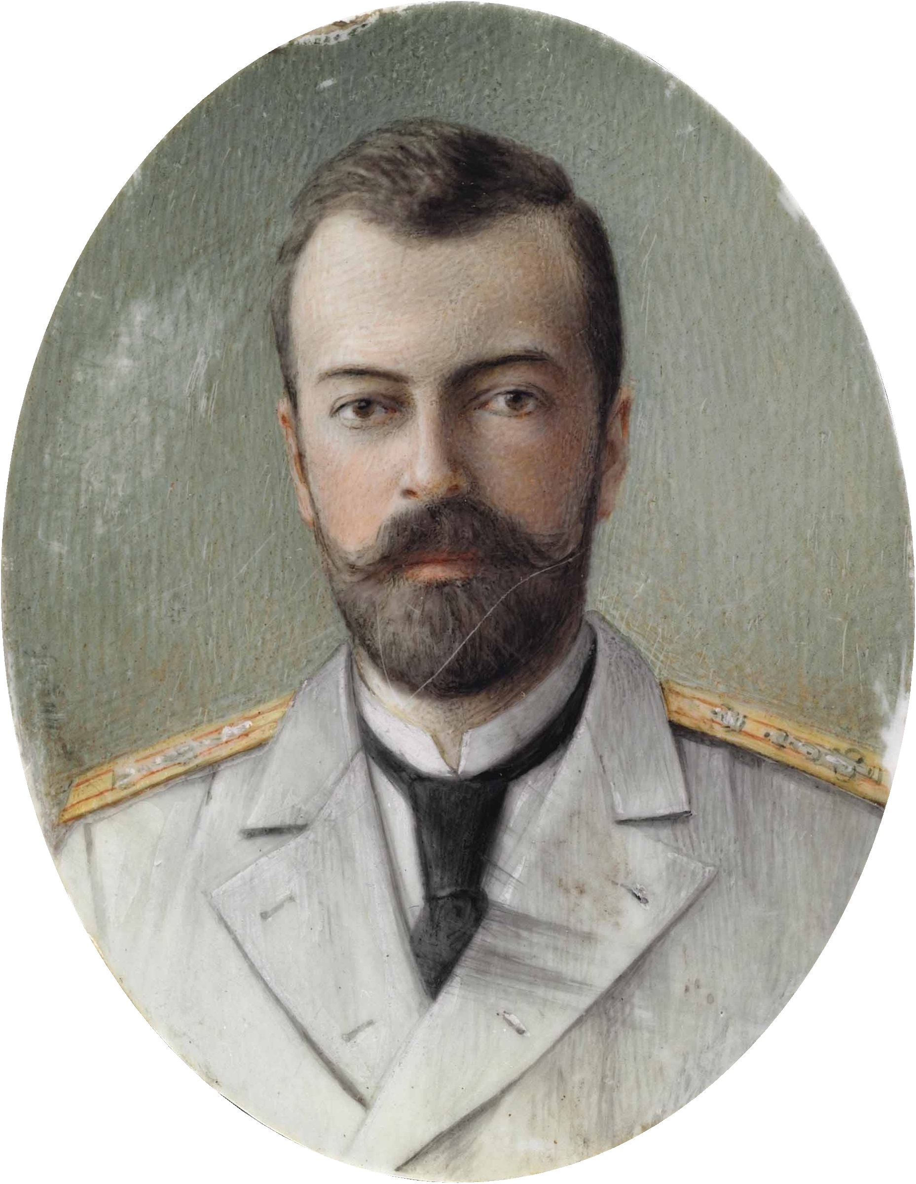 A PORTRAIT MINIATURE OF GRAND DUKE ALEXANDER MIKHAILOVICH IN A SILVER FRAME THE FRAME FLORENTINE, 1980; THE MINIATURE RUSSIA, CIRCA 1900 Oval, the frame centering an oval aperture containing a portrait miniature of the Grand Duke on mammoth ivory, signed indistinctly on lower left, possibly Zehngraf, the velvet backing with strut, frame marked on upper edge